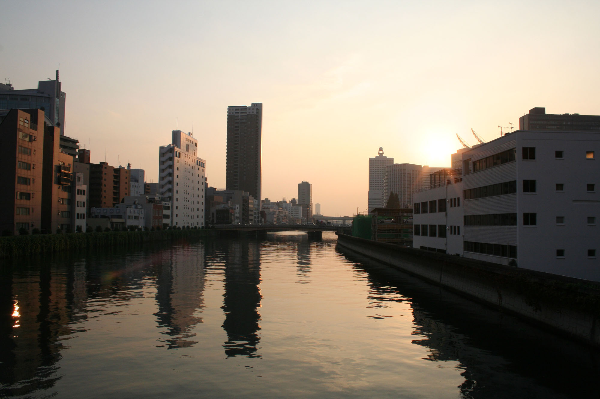 Taken at the Tosabori River, just south of the Osaka Science Museum.